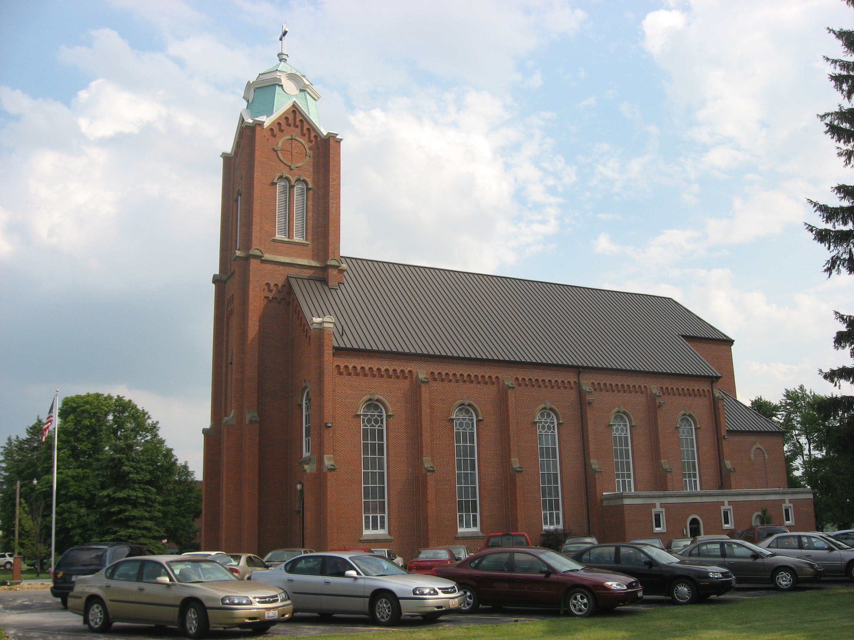 Northern side of All Saints Catholic Church (formerly St. Boniface's Catholic Church), located along N. Perry Street (State Route 587) in New Riegel, Ohio, United States. Built in 1875, it is listed on the National Register of Historic Places.